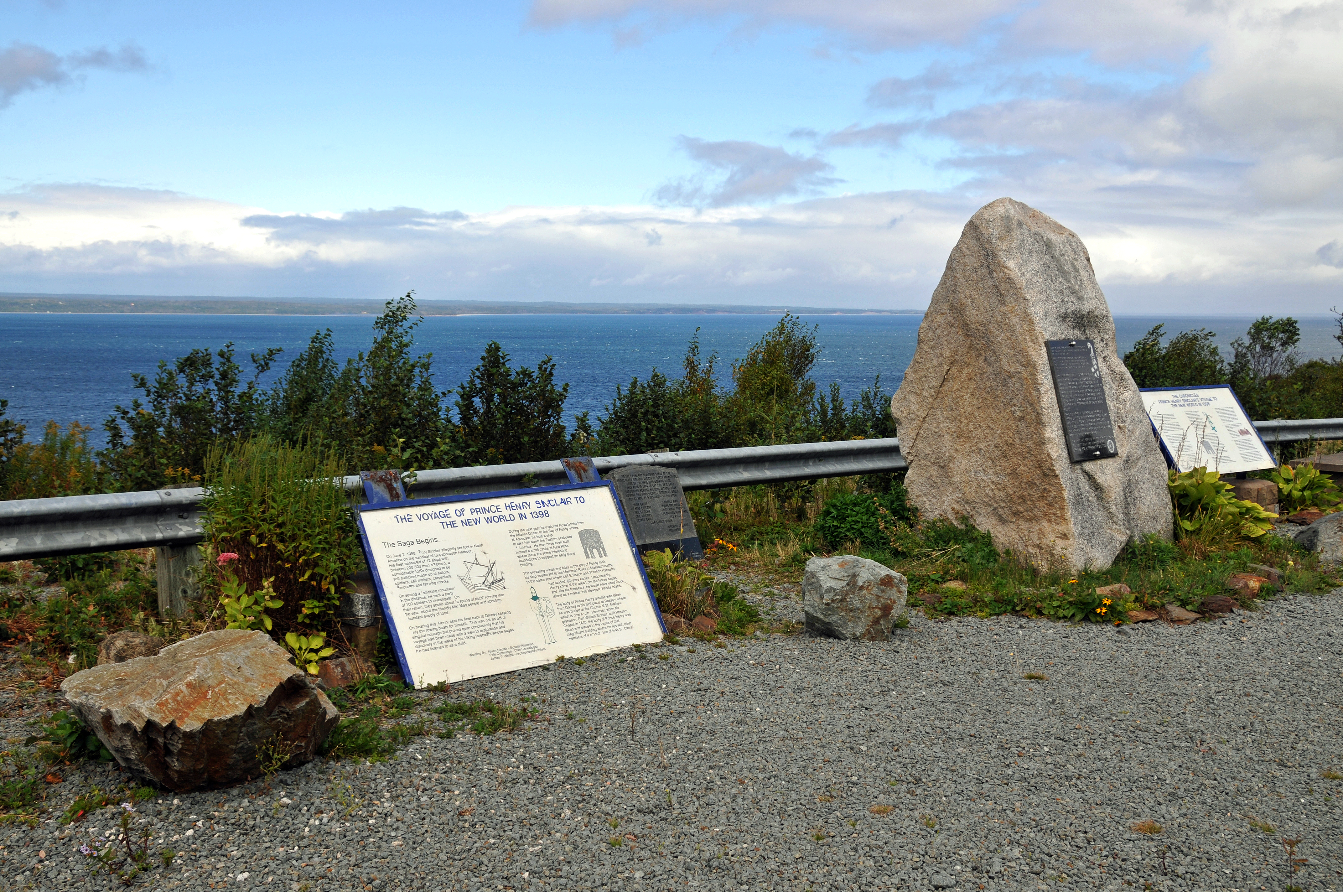 Monument commemorating the landing of the Prince Henry Sinclair Expedition. The Prince Henry Sinclair Society of North America believe he landed at Chedabucto Bay in 1398. The monument was erected on November 17, 1996. It is a fifteen-ton granite boulder with a black granite narrative plaque located at Halfway Cove on Rt. 16 in Guysborough County, Nova Scotia. The site offers a panoramic view of Chedabucto Bay.